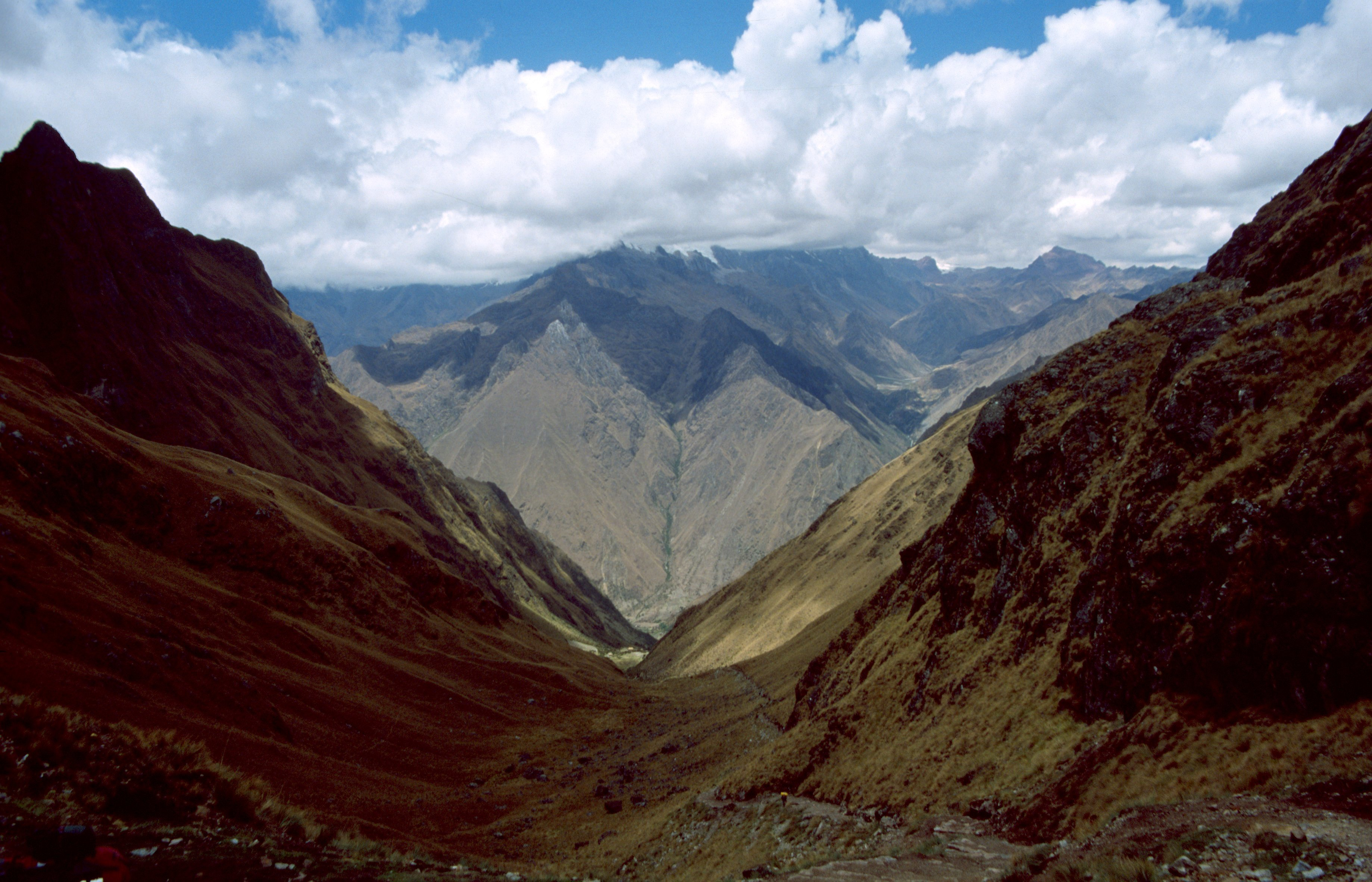 Inca trail from Cusco to Machu Picchu in Perú. Day 2. Ascent to Warmiwanusca or Dead Woman's Pass, which, at 4,200 m above sea level, is the highest point on the trail. Rear view from the pass.